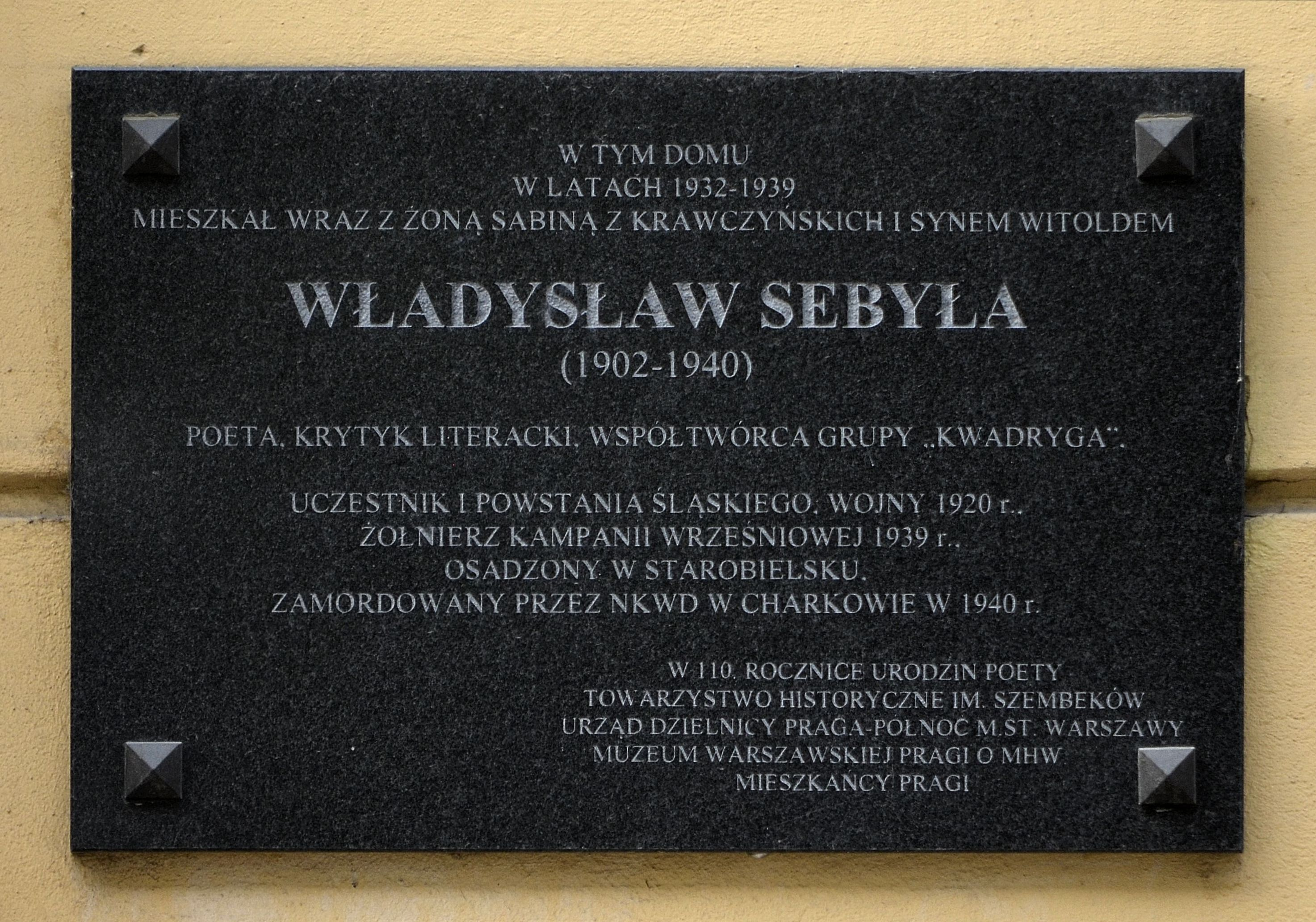 Plaque in memory of Władysław Sebyła at 5 Brzeska Street in Warsaw